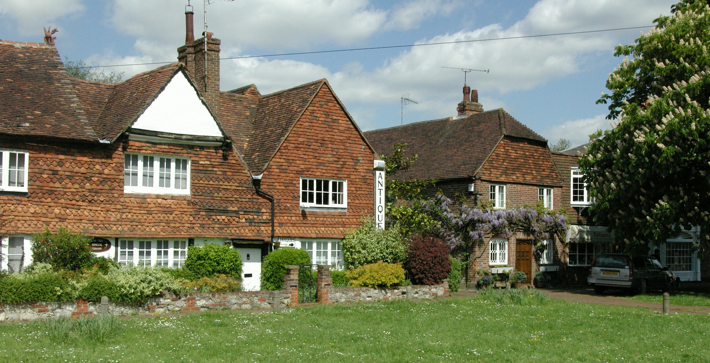 The village green, Brasted, near Westerham, Kent. Digital photo by me, Ross Burgess, 6 May 2005.